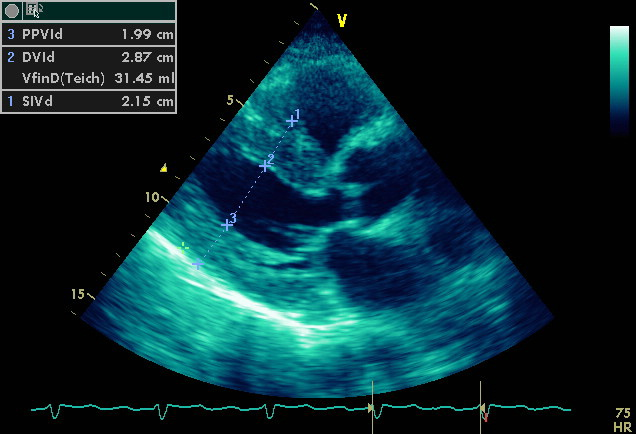 left ventricular hypertrophy shown in echocardiography